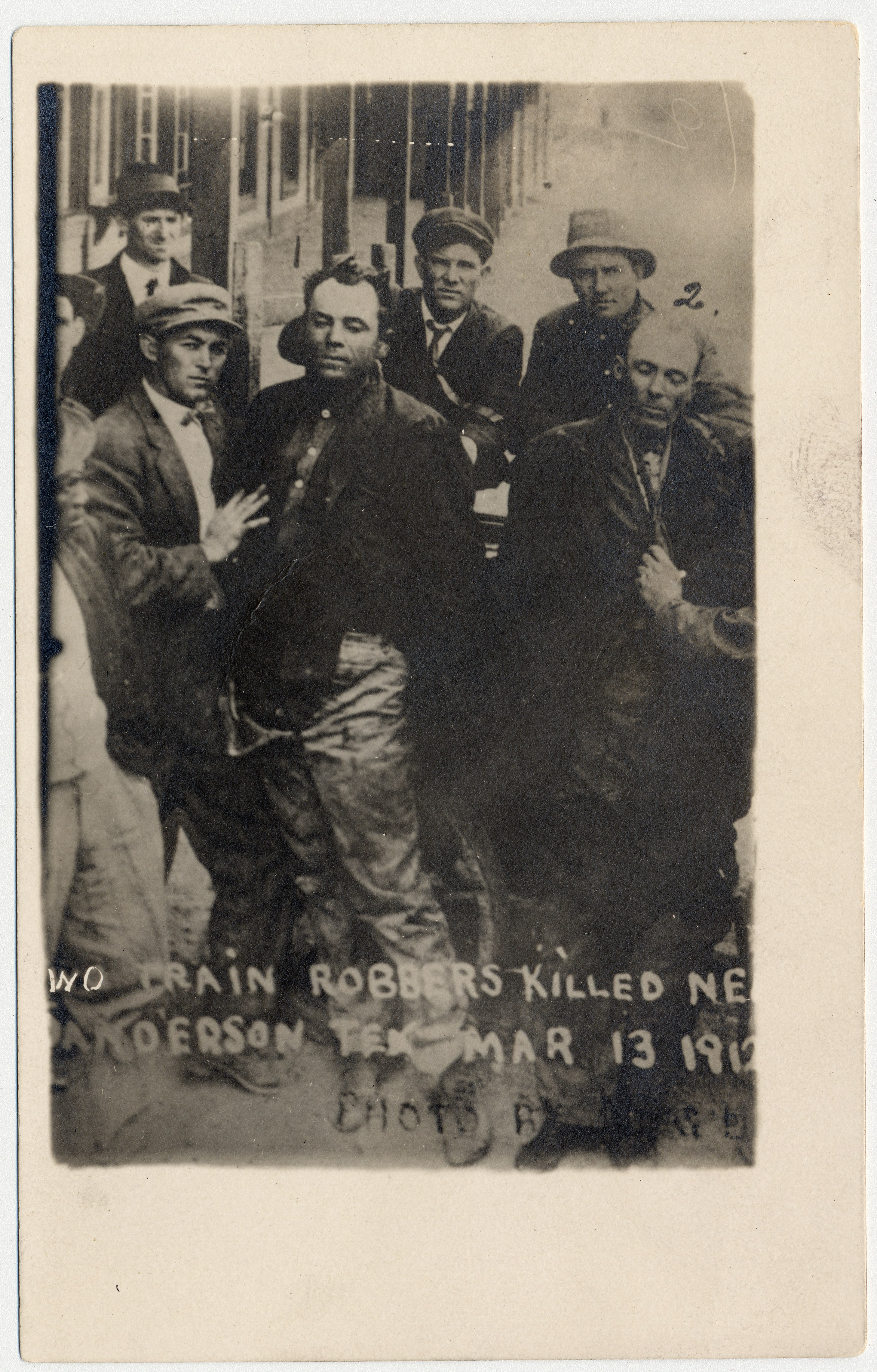 Title: Two train robbers killed near Sanderson Tex., Mar. 13, 1912 Abstract/medium: 1 photographic print (postcard)